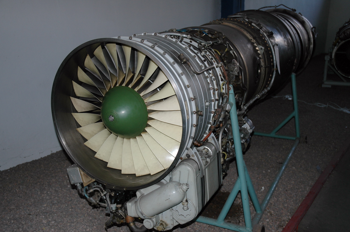 Tumansky R-11 turbojet engine with afterburner (Polish Aviation Museum, Cracow, Poland)